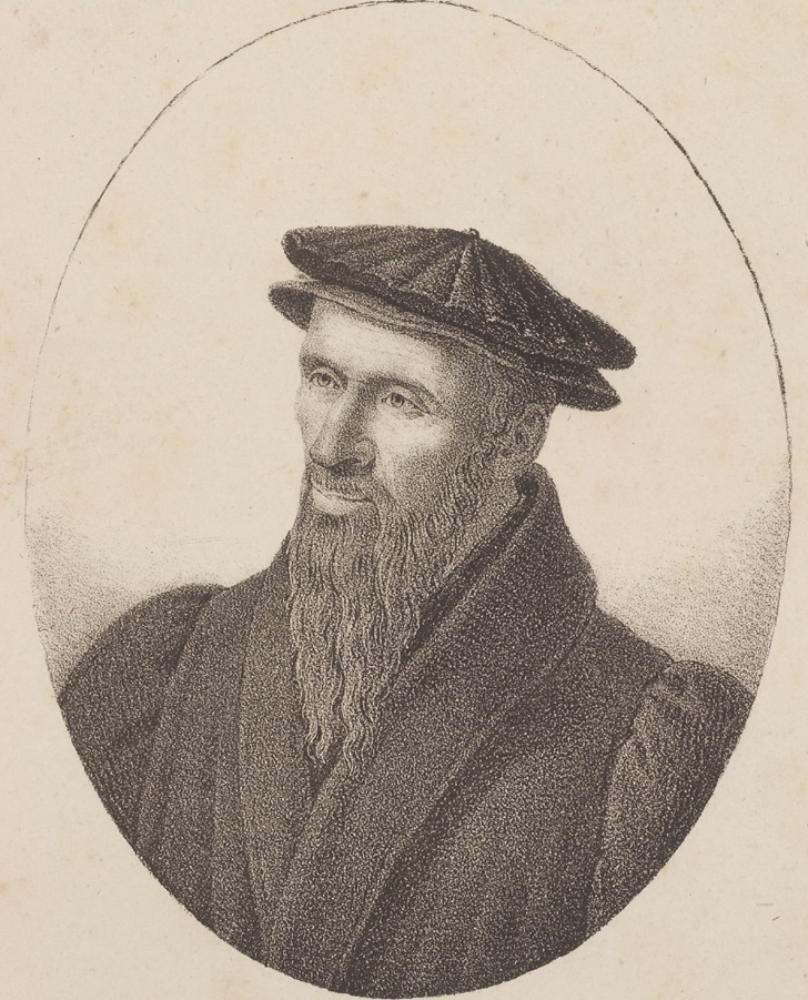 William Farel